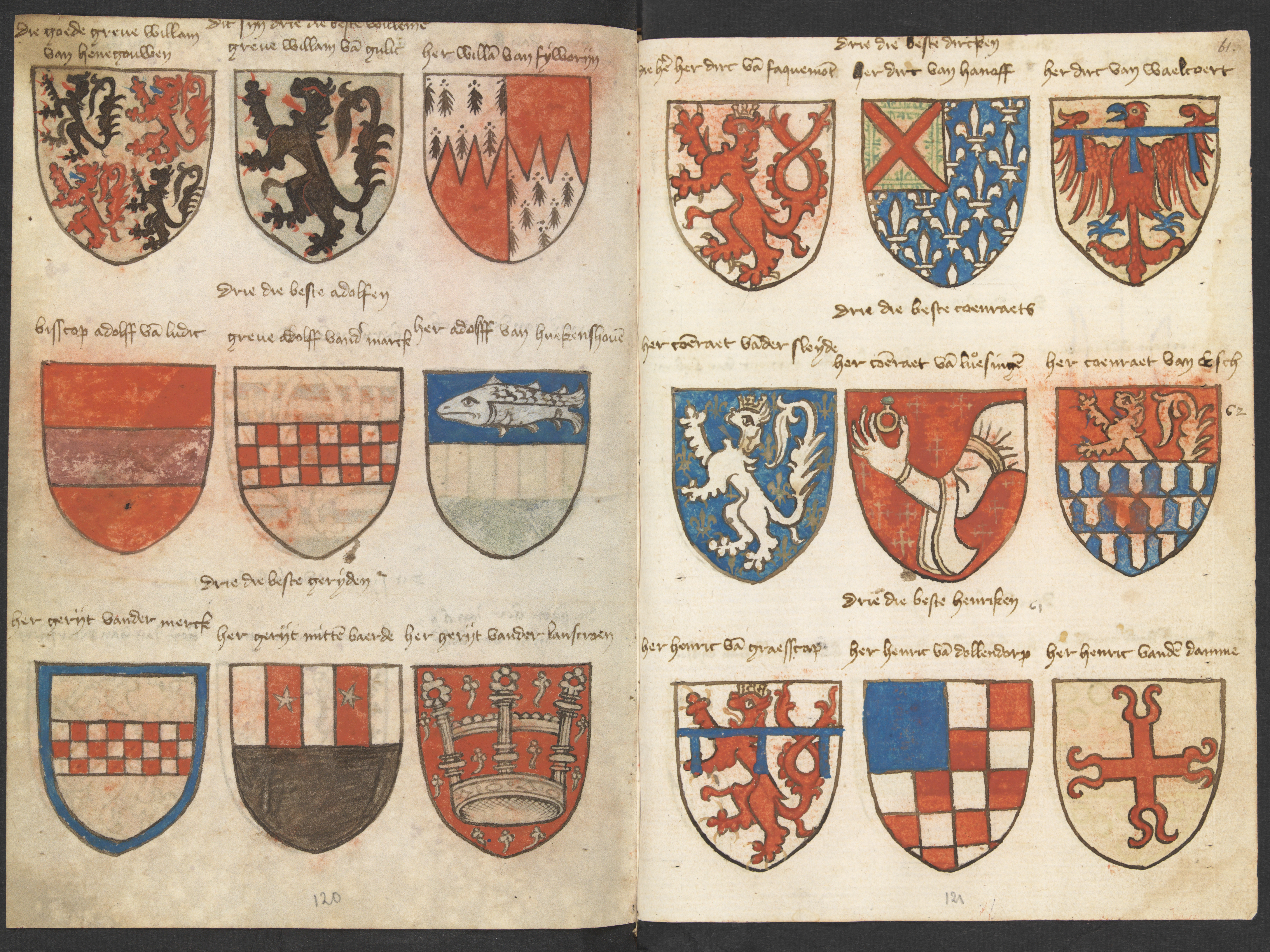 Lefthand side folio 060v; righthand side folio 061r from the Beyeren armorial / Wapenboek Beyeren